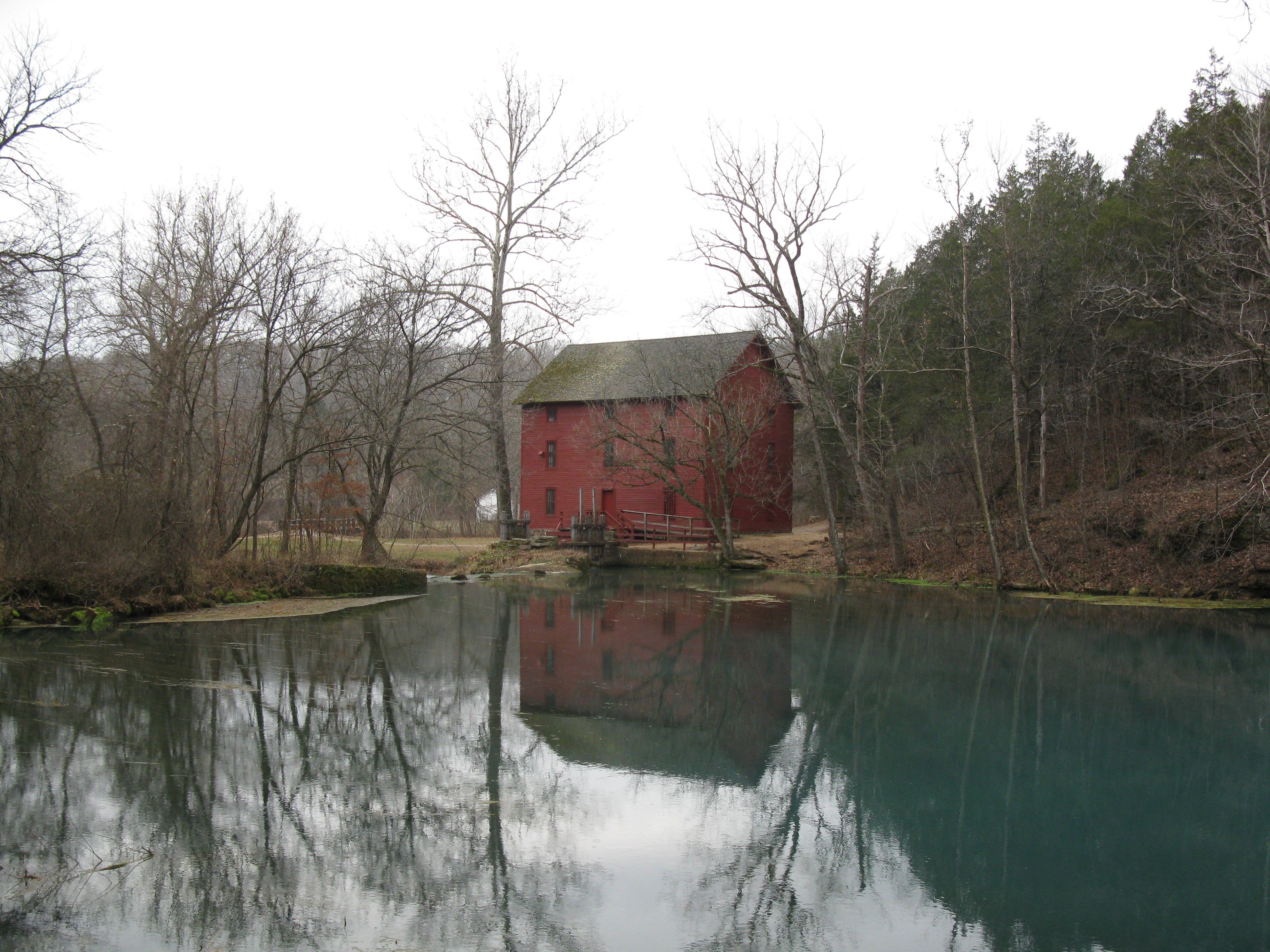 The mill from the spring -Alley Spring, Missouri.